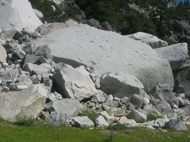 Description : Granite in Yosemite Valley, California, USA. Author : Urban ; I took this picture on April 2006.